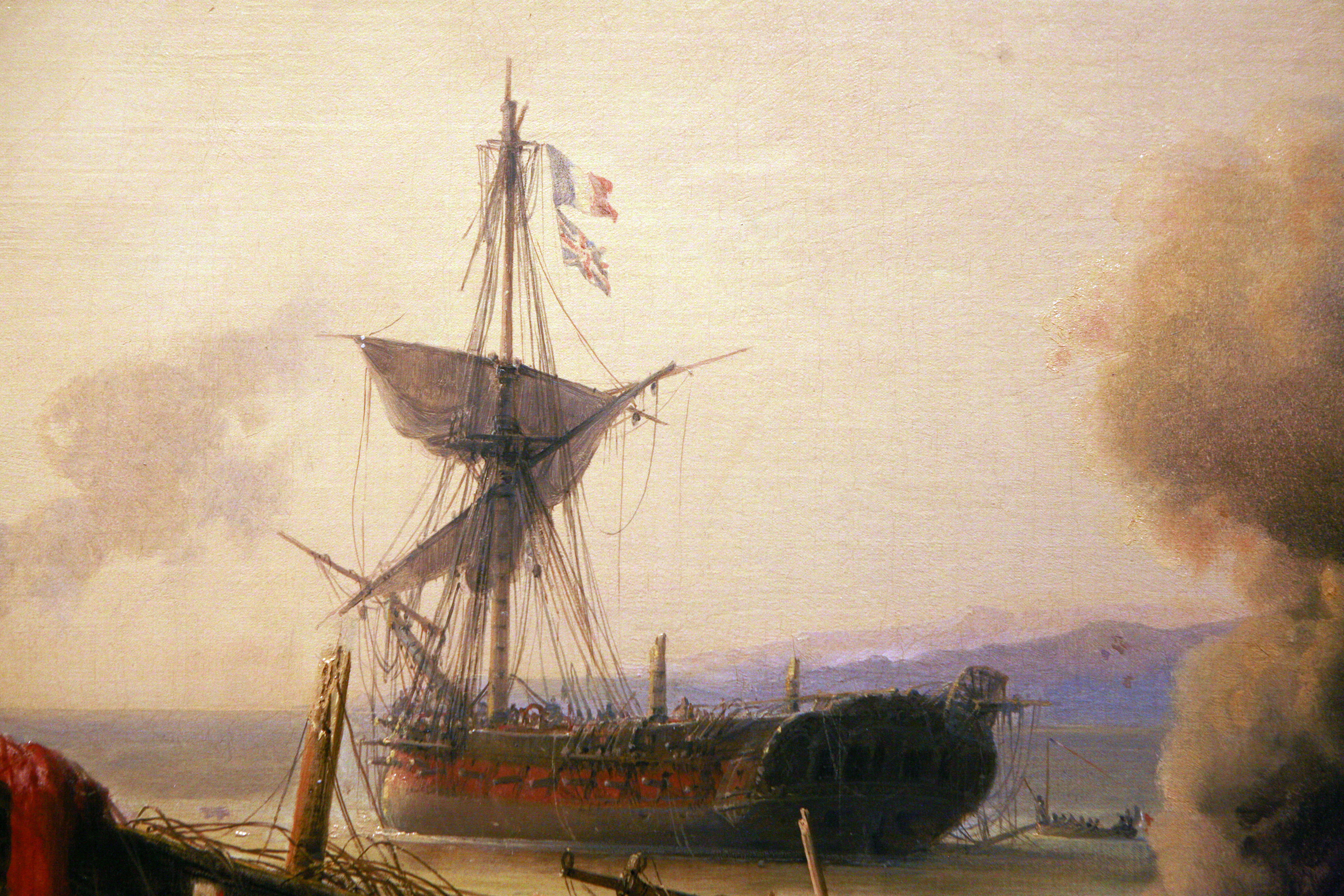 Battle of Grand Port: HMS NereideOil on canvasCollection Musée national de la Marine Native nameMusée national de la MarineLocationParisEstablished1827Web page control : Q1286709 VIAF: 19144648200974718522 ISNI: 0000 0001 2259 2914 LCCN: n50055356 Museofile: M5026 WorldCat institution QS:P195,Q1286709Source/Photographer Rama